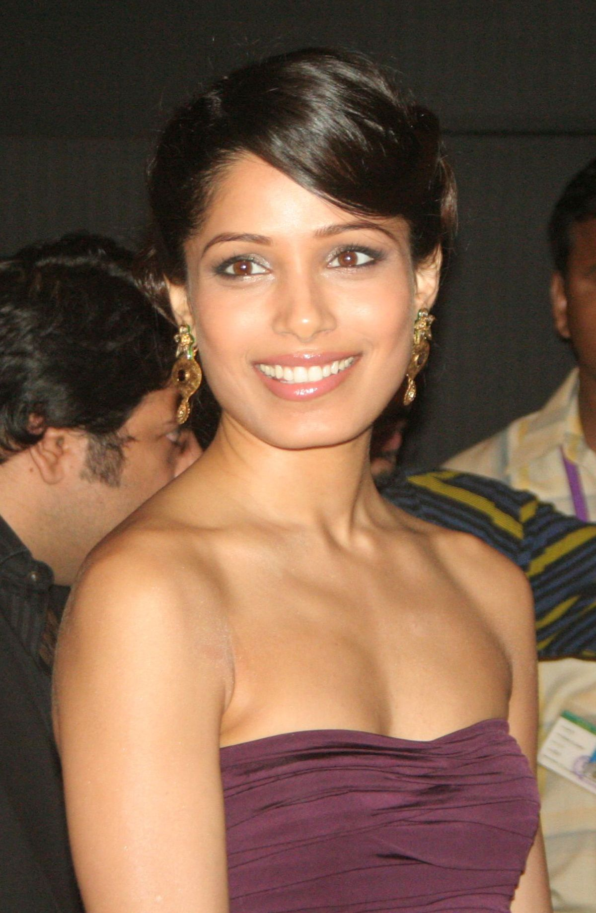 Freida Pinto at the special screening of Woody Allen's film 'You will meet a tall dark stranger' during the 41st International Film Festival of India, Goa 2010